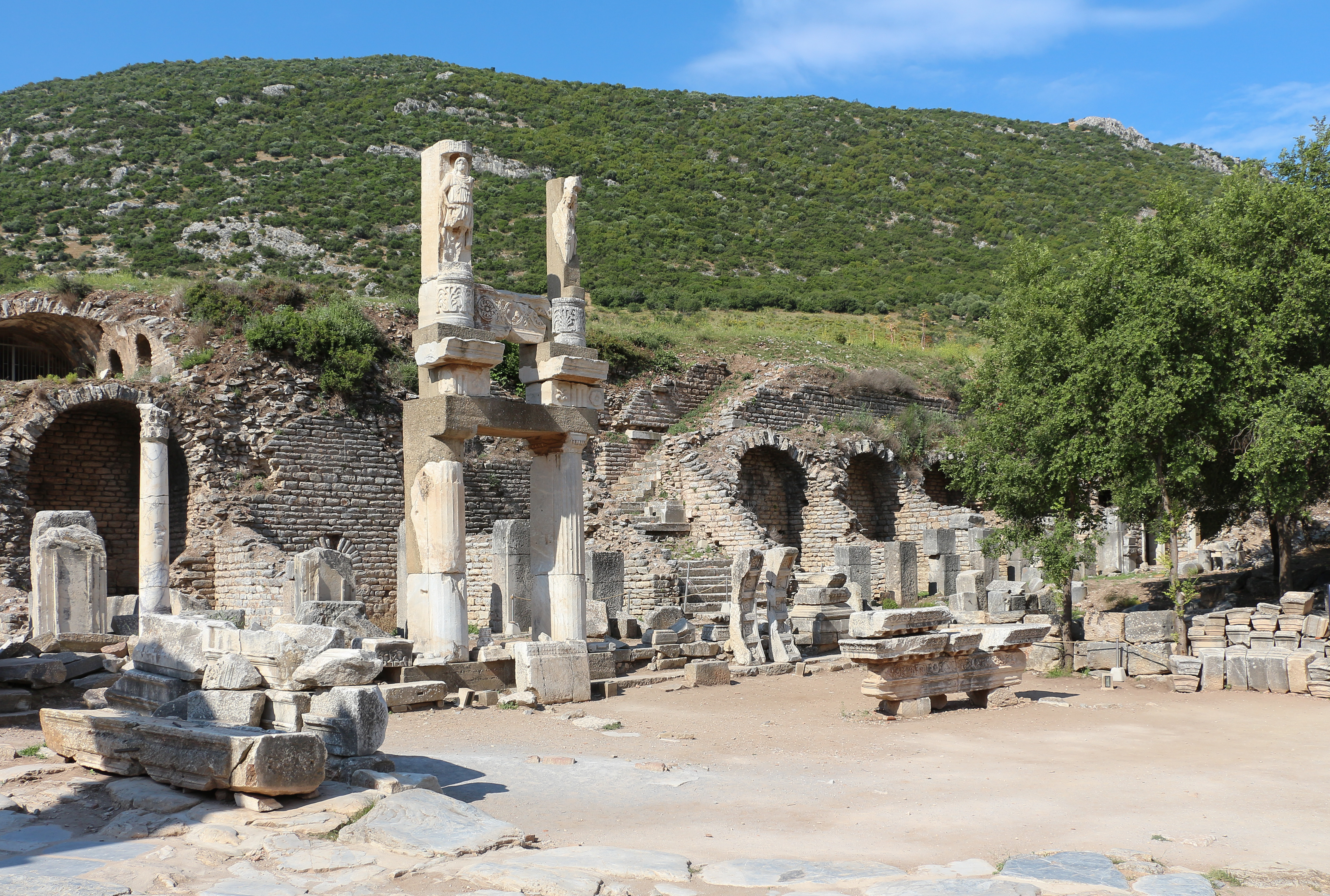 Temple of Domitian in Ephesus, Turkey